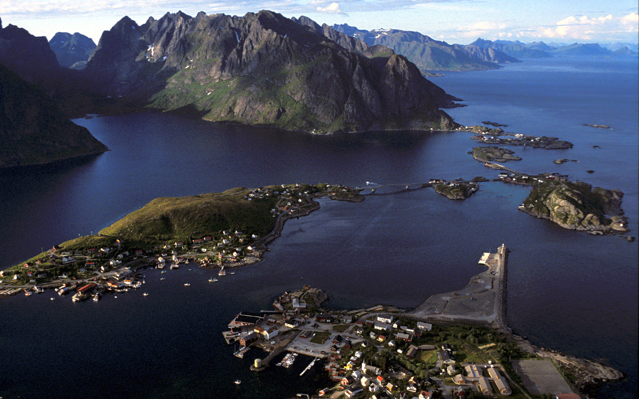 Picture of Reine, Lofoten, Norway. Seen from top of Reinebringen